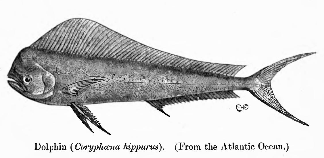 Coryphaena hippurus